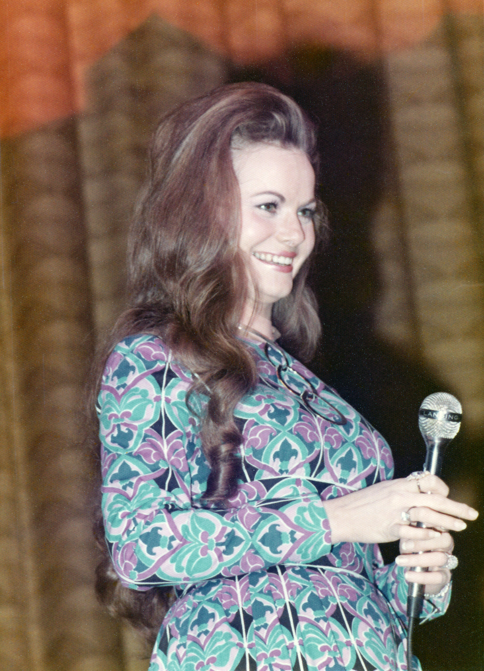 Taken by David E. Buckmaster February 4, 1973 Lansing Civic Center Also on stage during that performance: "The Homesteaders" There is no model release on file.